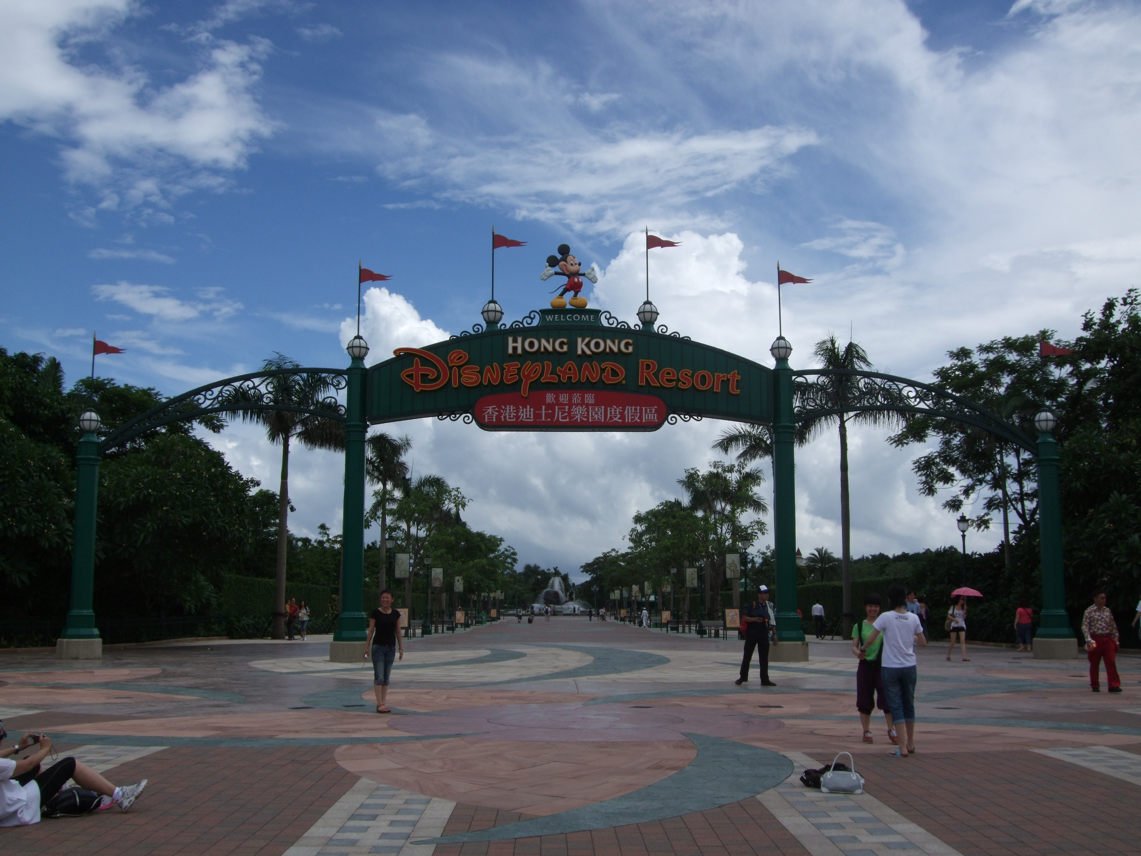 Photo of Hong Kong Disneyland Resort Entrance.